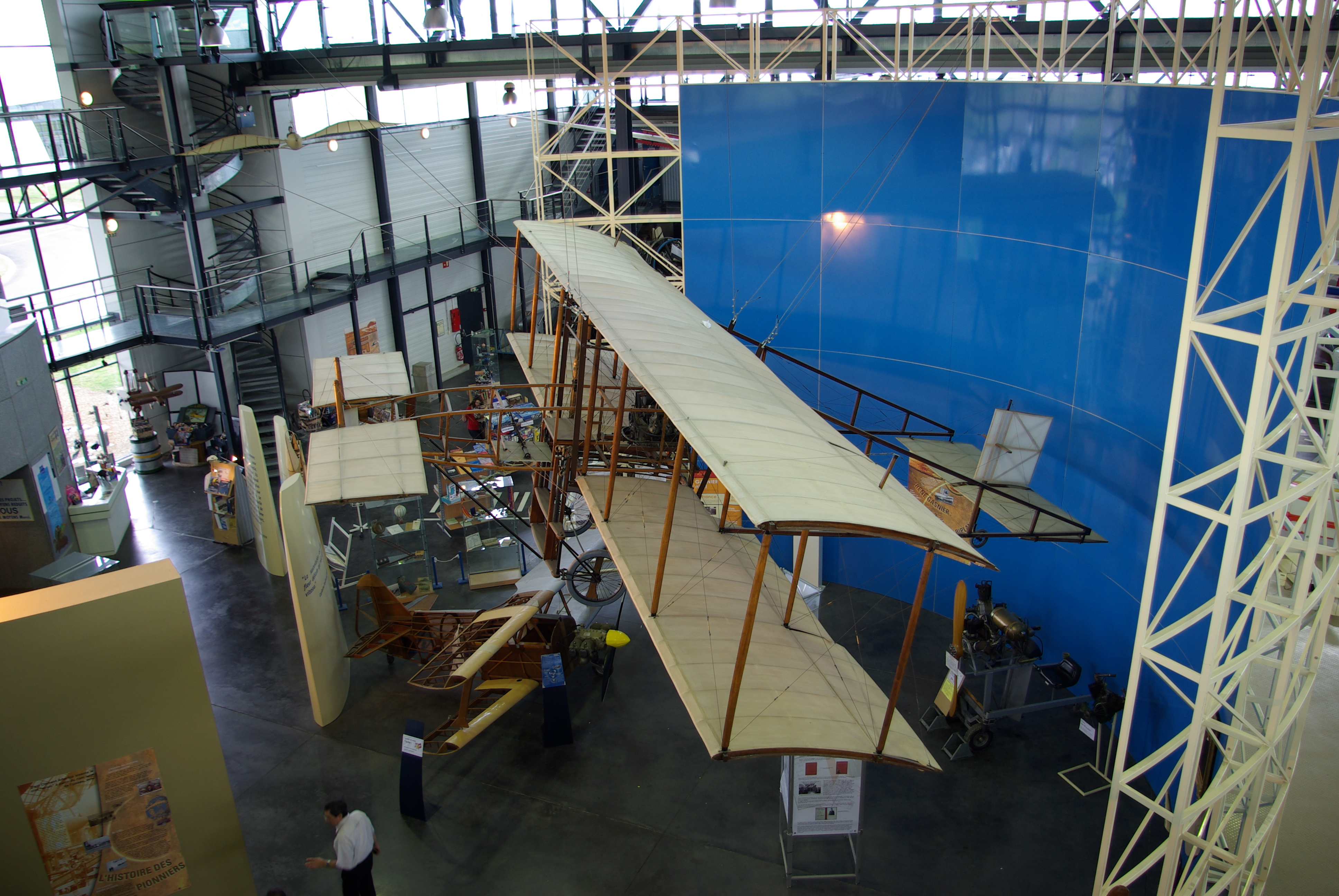 René Gasnier n°III 1908 biplane, at the entrance of the musée régional de l'air, Angers-Marcé.